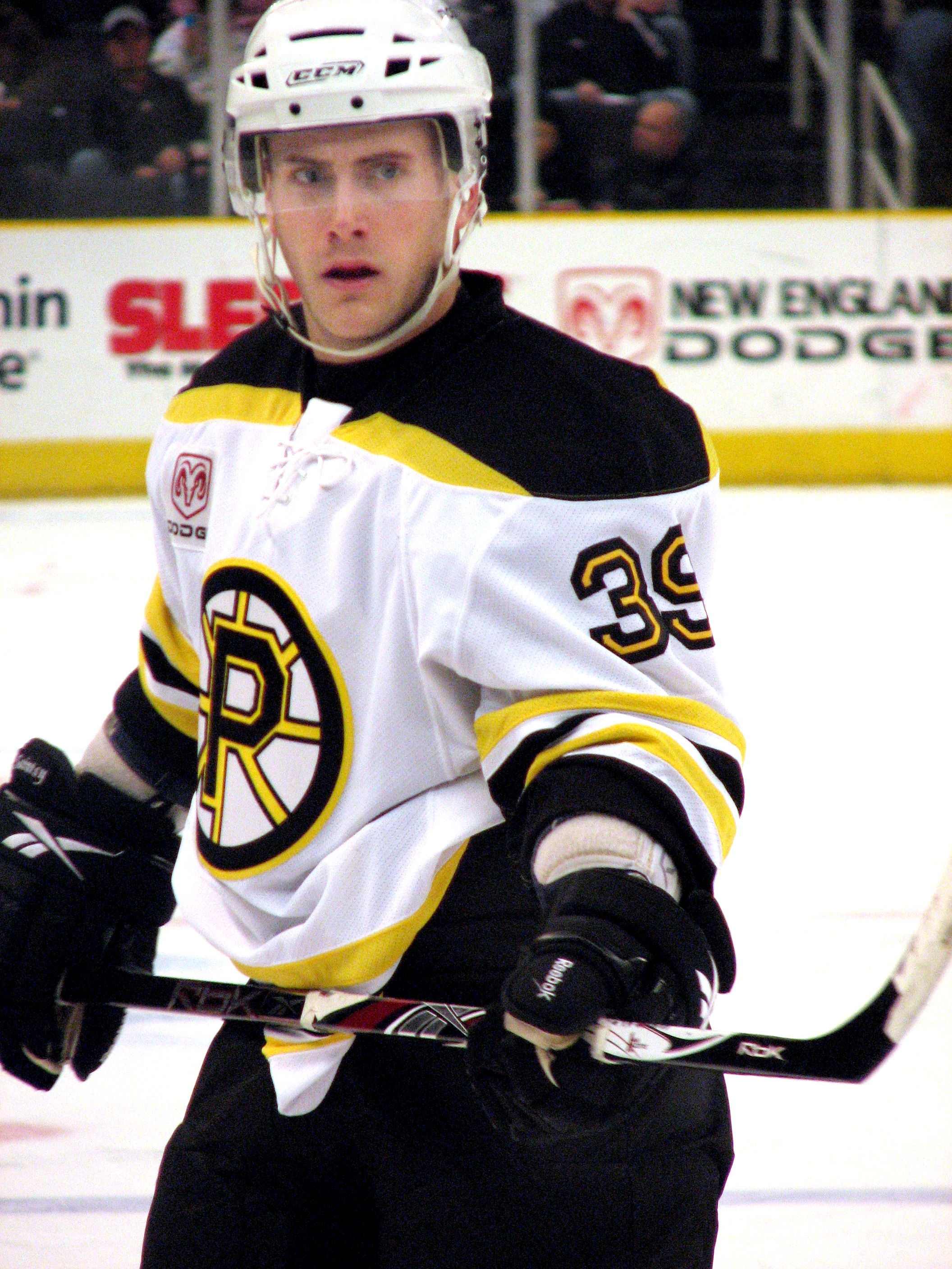 Martin St.Pierre of the Providence Bruins. Dec 5, 2008